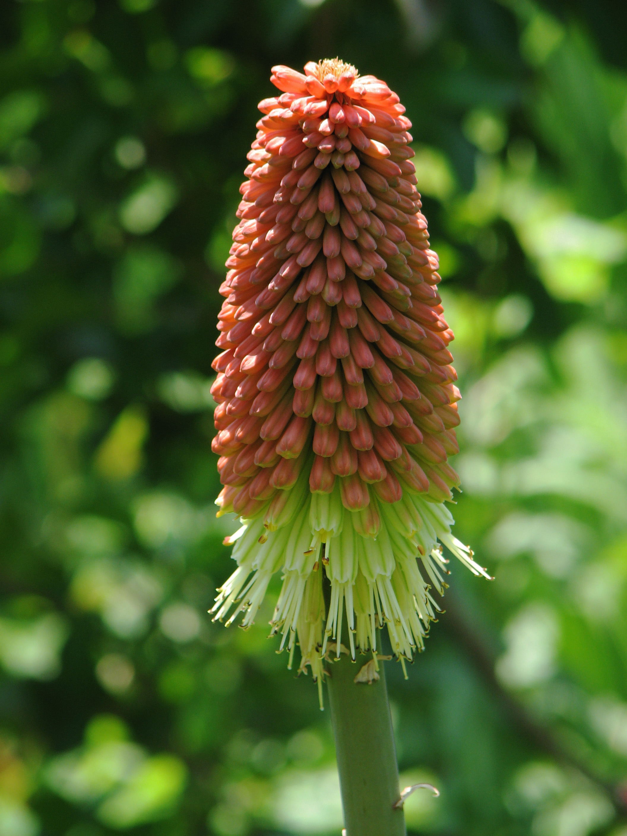 Picture of a flower of the Kniphofia en 'Shenandoah'. Photo taken at the Chanticleer Garden where it was identified.